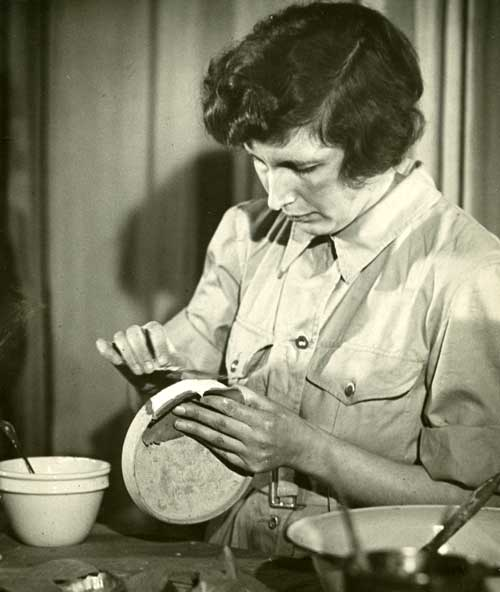 Ione Gedye (1907–1990), British archaeological conservator at the UCL Institute of Archaeology.